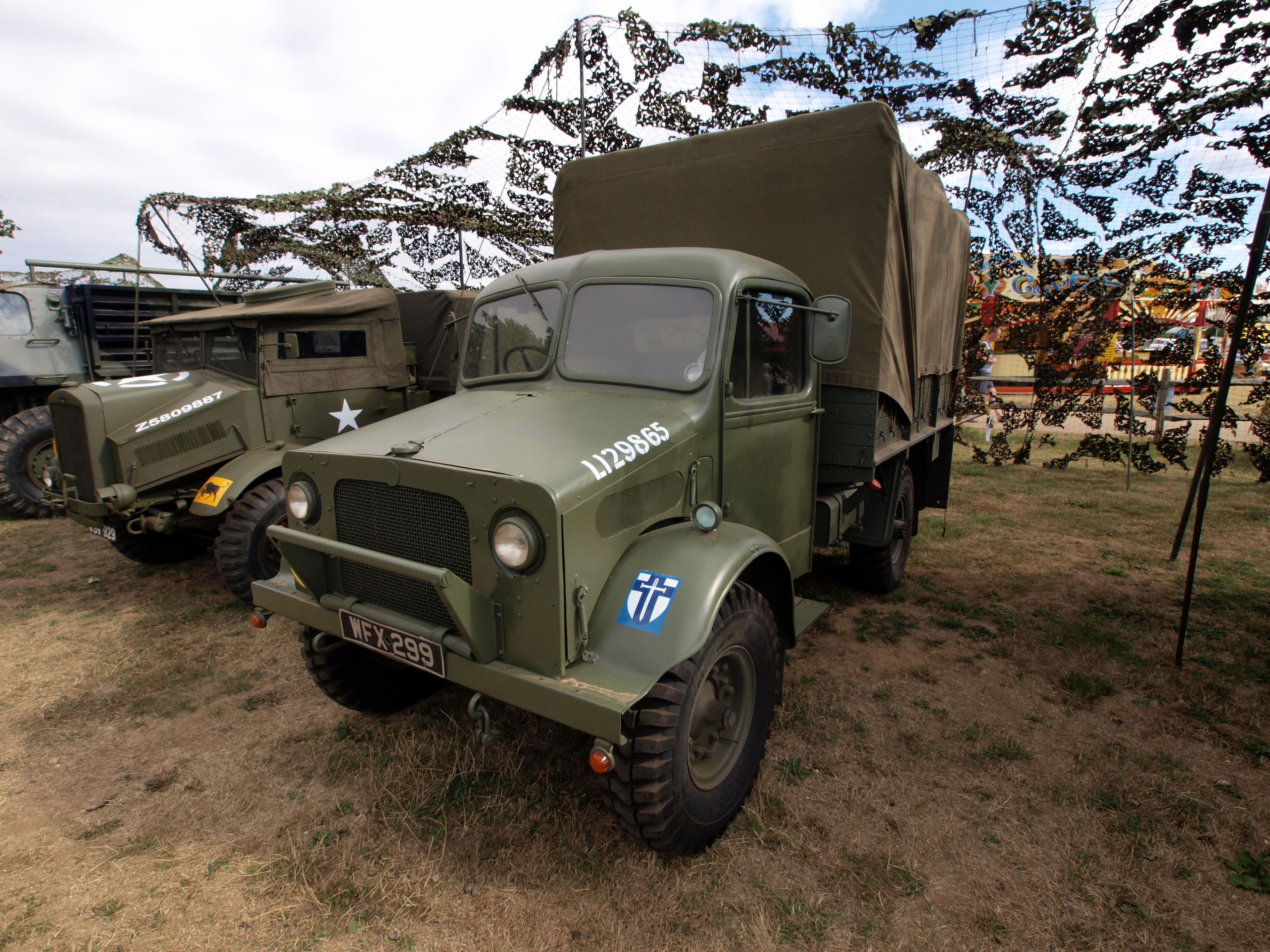 On the foreground there's a Bedford 30cwt OXD truck with GS body, L129865